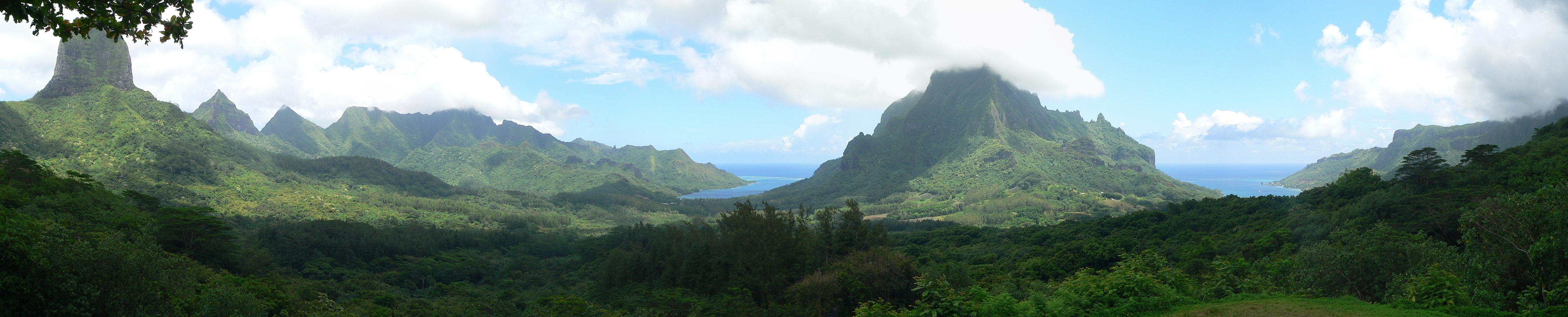 Panorama from viewpoint Belvédère in Moorea, French Polynesia (Nov-2010)